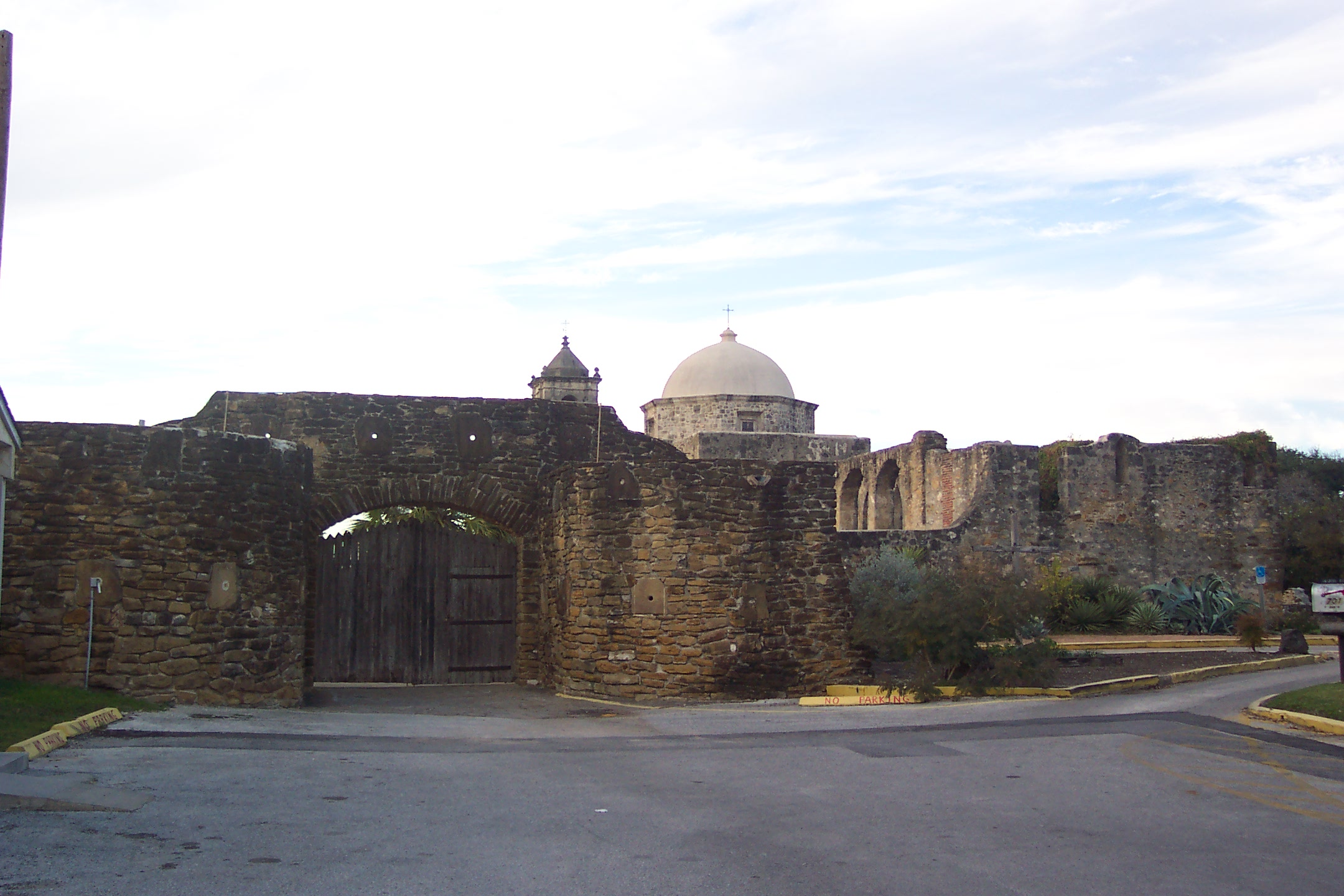 Entrance to the mission San José, San Antonio, Texas